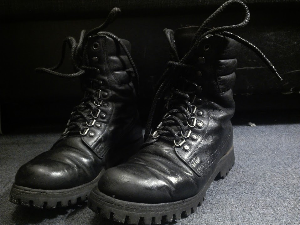 Belarusian army combat boots